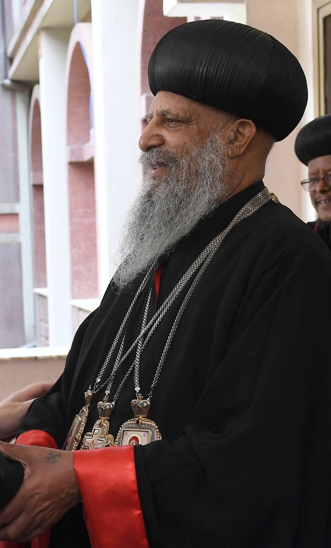 President of Israel, Reuven Rivlin, in a meeting with theEthiopian President Mulatu Teshome, the Prime Minister of Ethiopia, Abiy Ahmed and the Ethiopian Orthodox Patriarch, Abune Mathias. Wednesday, May 2, 2018. Photo Credit: Mark Neyman / GPO. Depicted person: Abune Mathias – Patriarch of Ethiopia